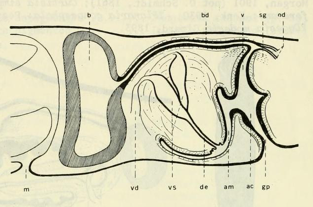 Girardia tigrina. Copulatory apparatus (after Kenk, 1935).